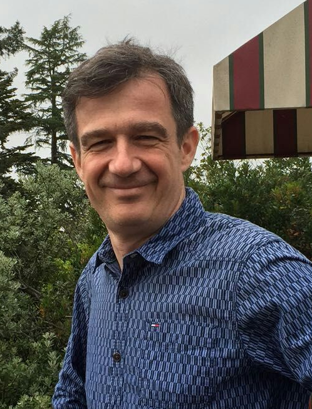 Martin Kuball